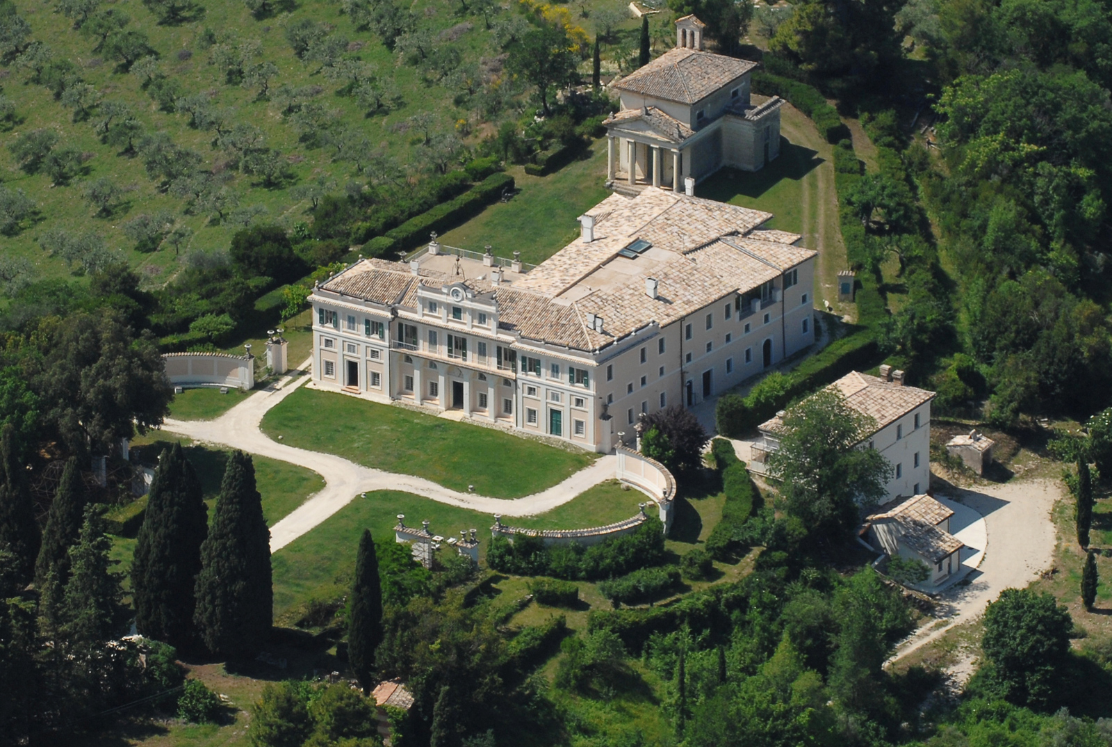 Foto taken from above that shows the structure of Villa Pianciani